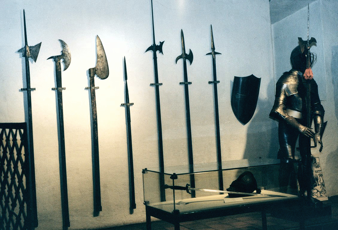 Castle of Nideggen, exhibits in keep (pole arms, including halbred, voulge and pollaxe).